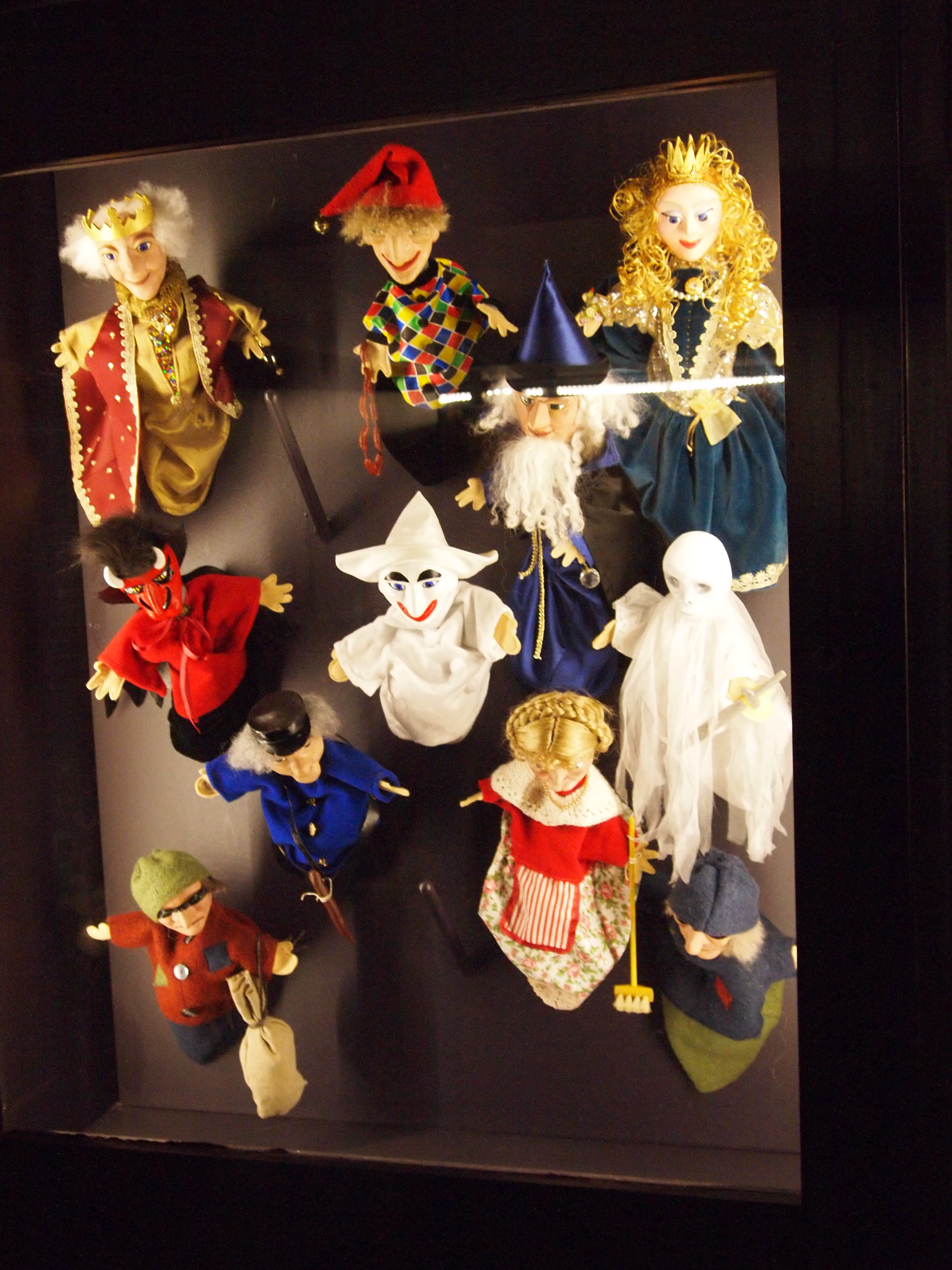 Pictures taken at the National Museet - The National Museum - Copenhagen Denmark during the Wikipedia Loves Nationalmuseet This image was provided to Wikimedia Commons by Nationalmuseet as part of an ongoing cooperative project. The artifact represented in the image is part of the collection of Nationalmuseet. English | +/− Attribution: Nationalmuseet